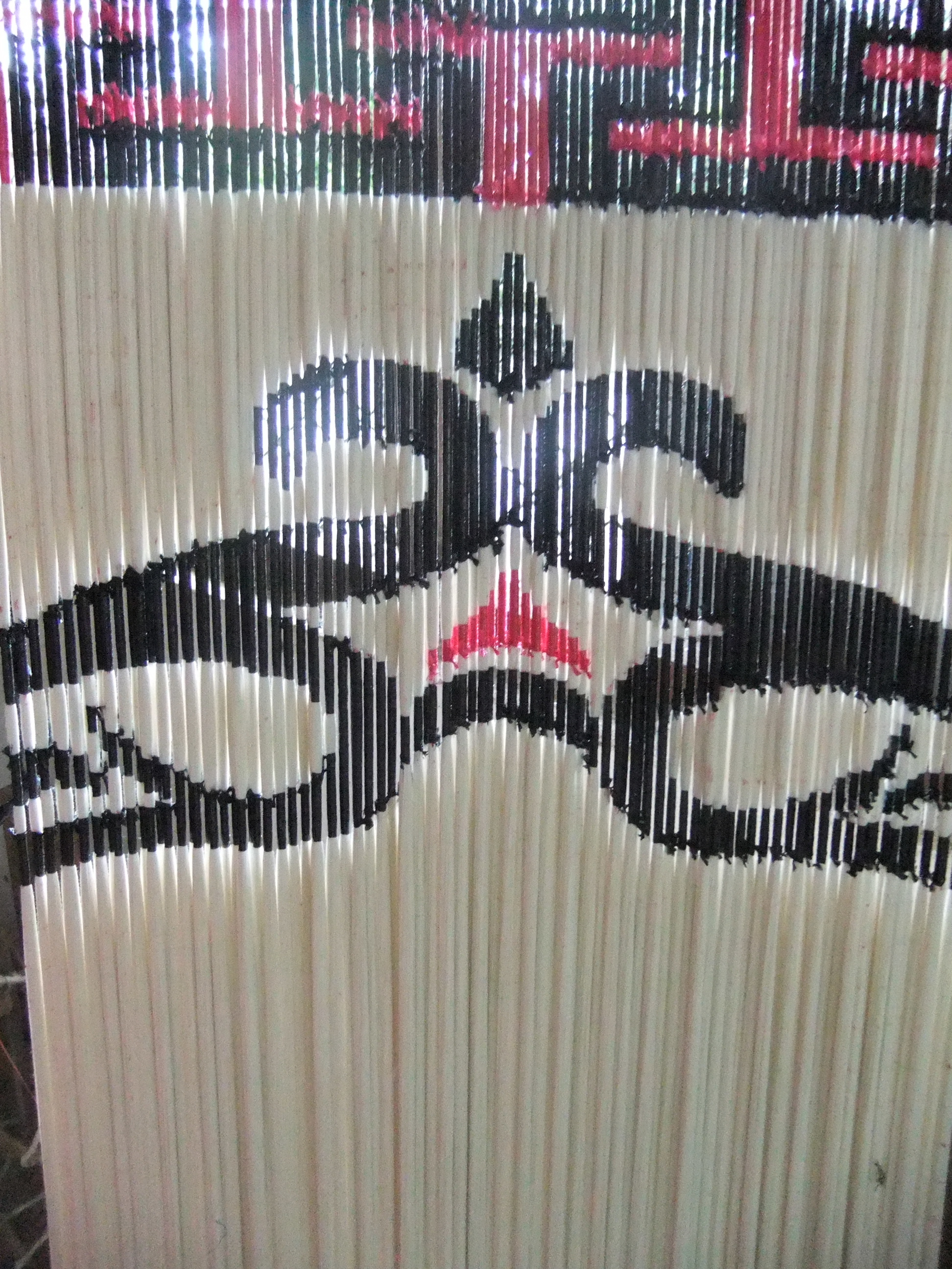 Warp threads before dyeing. Tenun Ikat Lombok, Indonesia